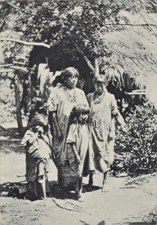 Plate V no 4 from Researches in the Central Portion of the Usumatsintla Valley, published in 1901. Lacantun Indians.